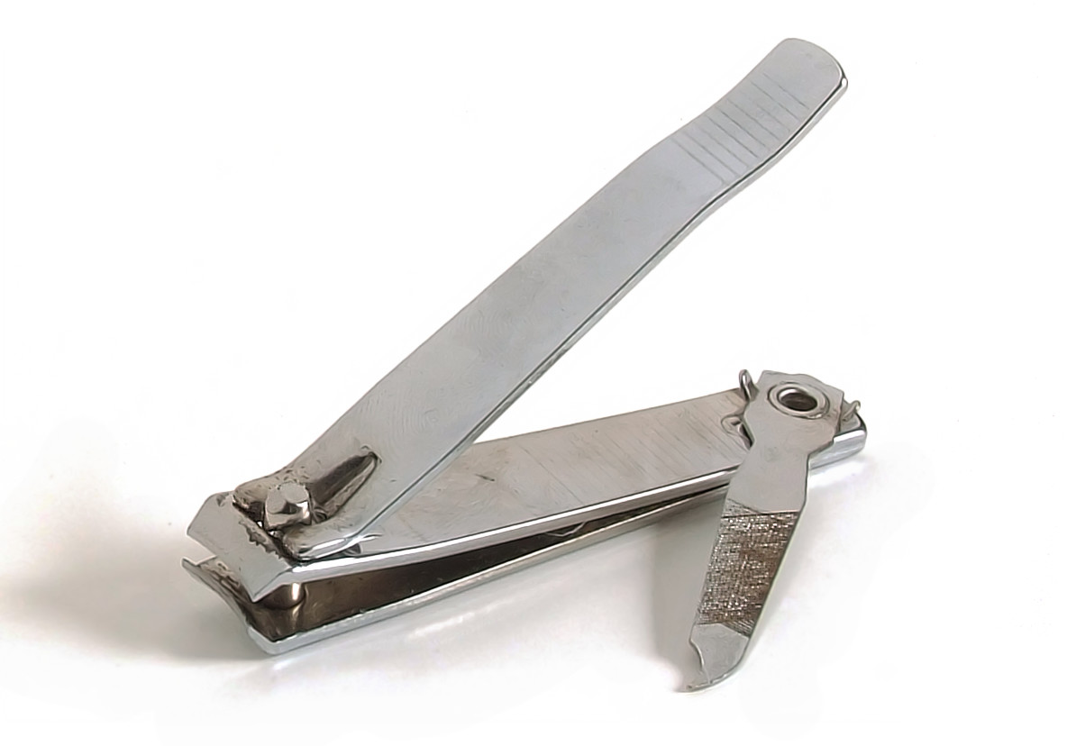 Nail clipper Fingernail clippers and the little file that comes with them. This Image Photo taken by Iain 04:52, 29 November 2006 (UTC)